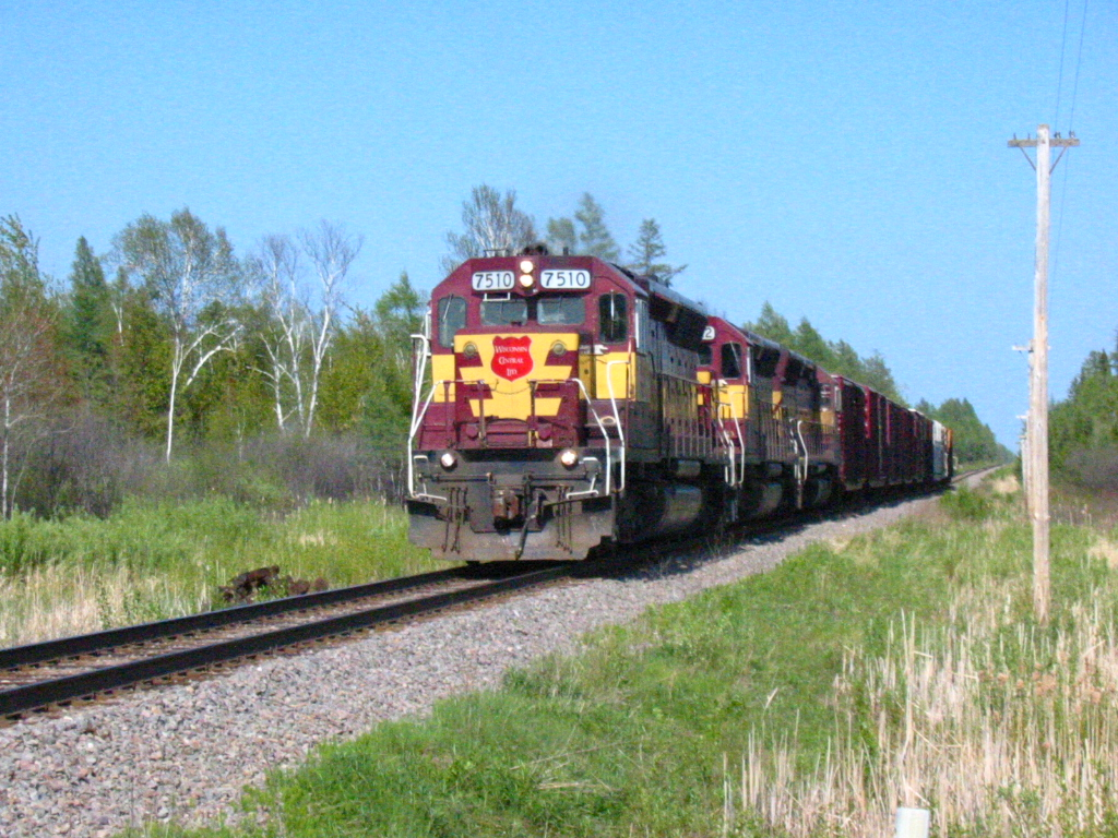 WC 7510 leads a short manifest train westbound across Michigan's Upper Peninsula. Photo by Sean Lamb (Wikipedia login slambo). Photo date May 27 en:2003. Uploaded by the photographer slambo 23:10, 22 Sep 2004 (UTC).